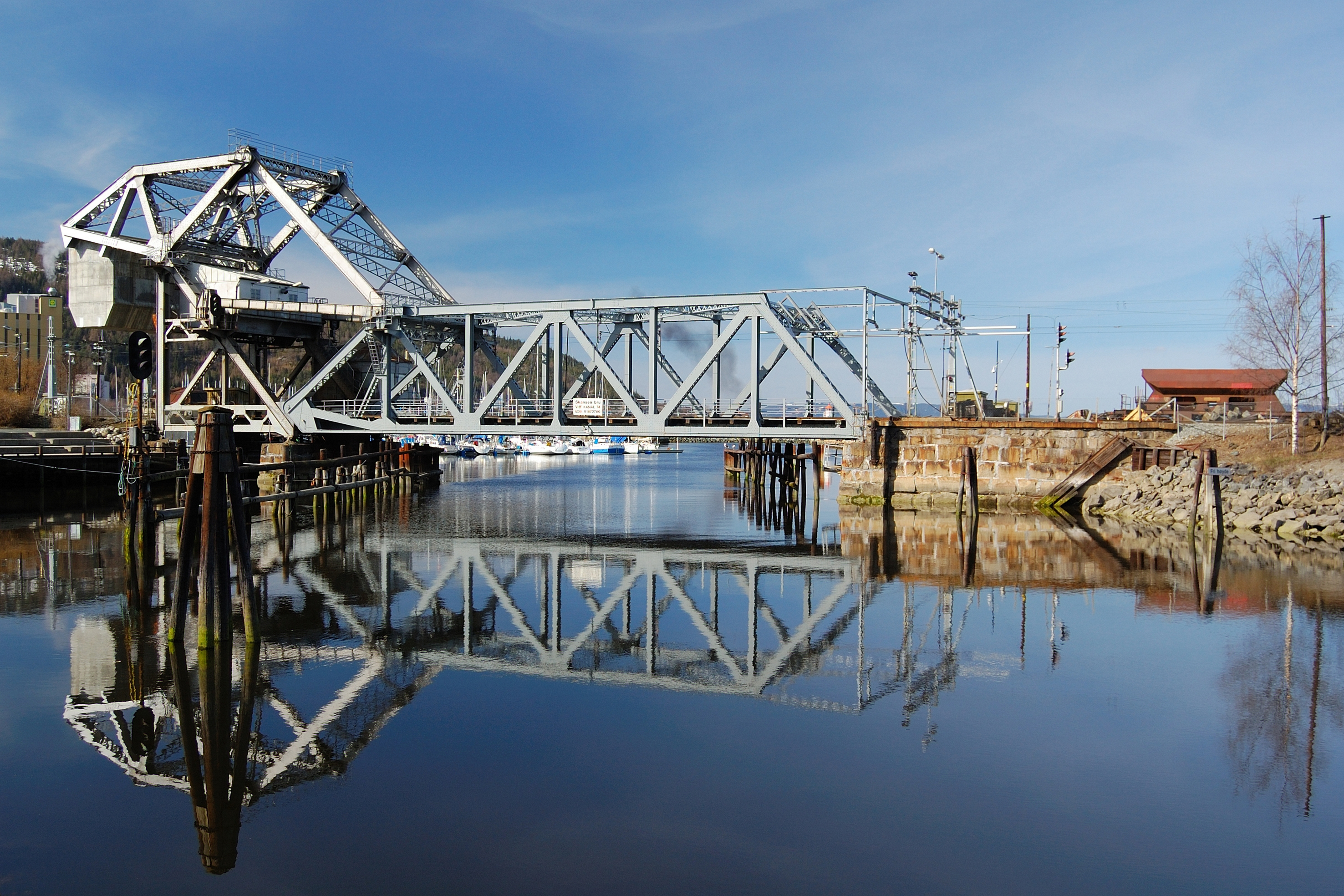 Skansen bridge in Trondheim, Norway.